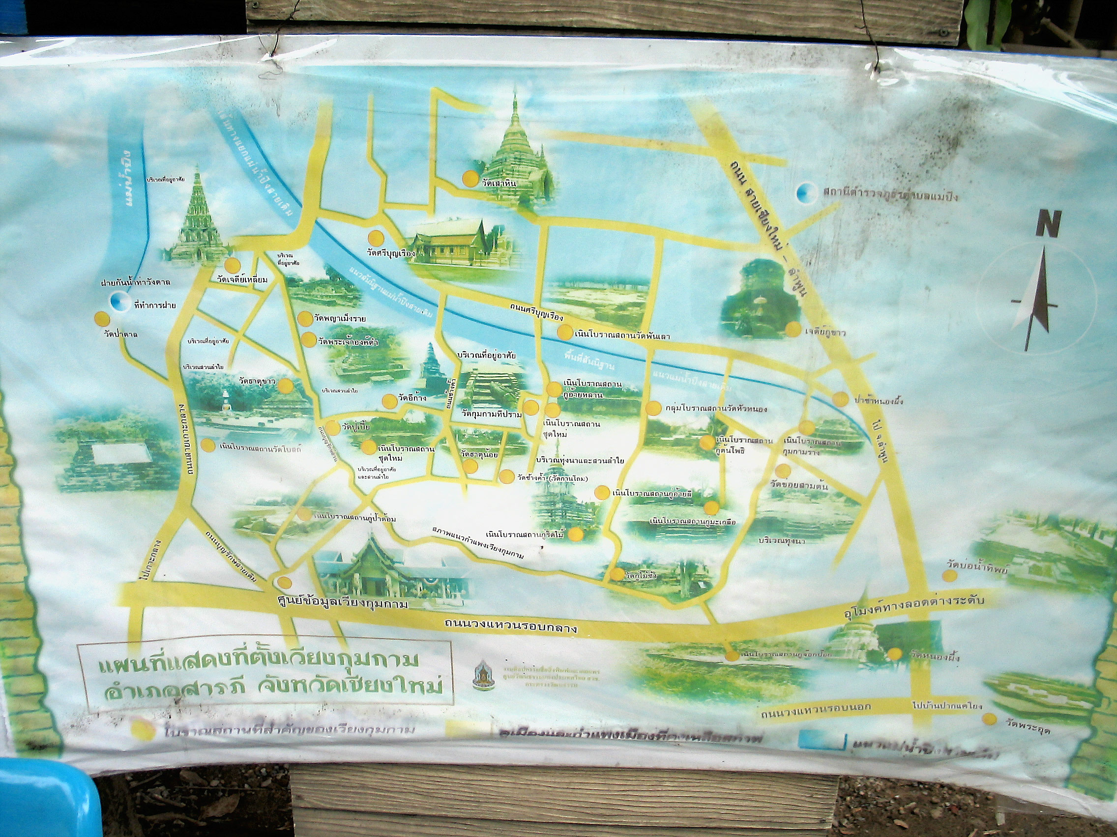 Plan of Wiang Kum Kam, Chiang Mai.